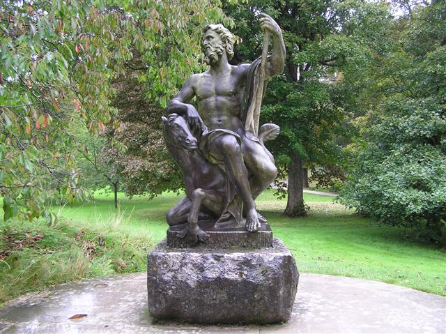 Neptune statue, Holker Hall Created by Italian craftsmen in the 17th century, it is in the grounds beside the house.